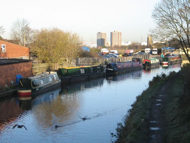 Looking out over Macclesfield Canal towards the Hurdsfield Flats.